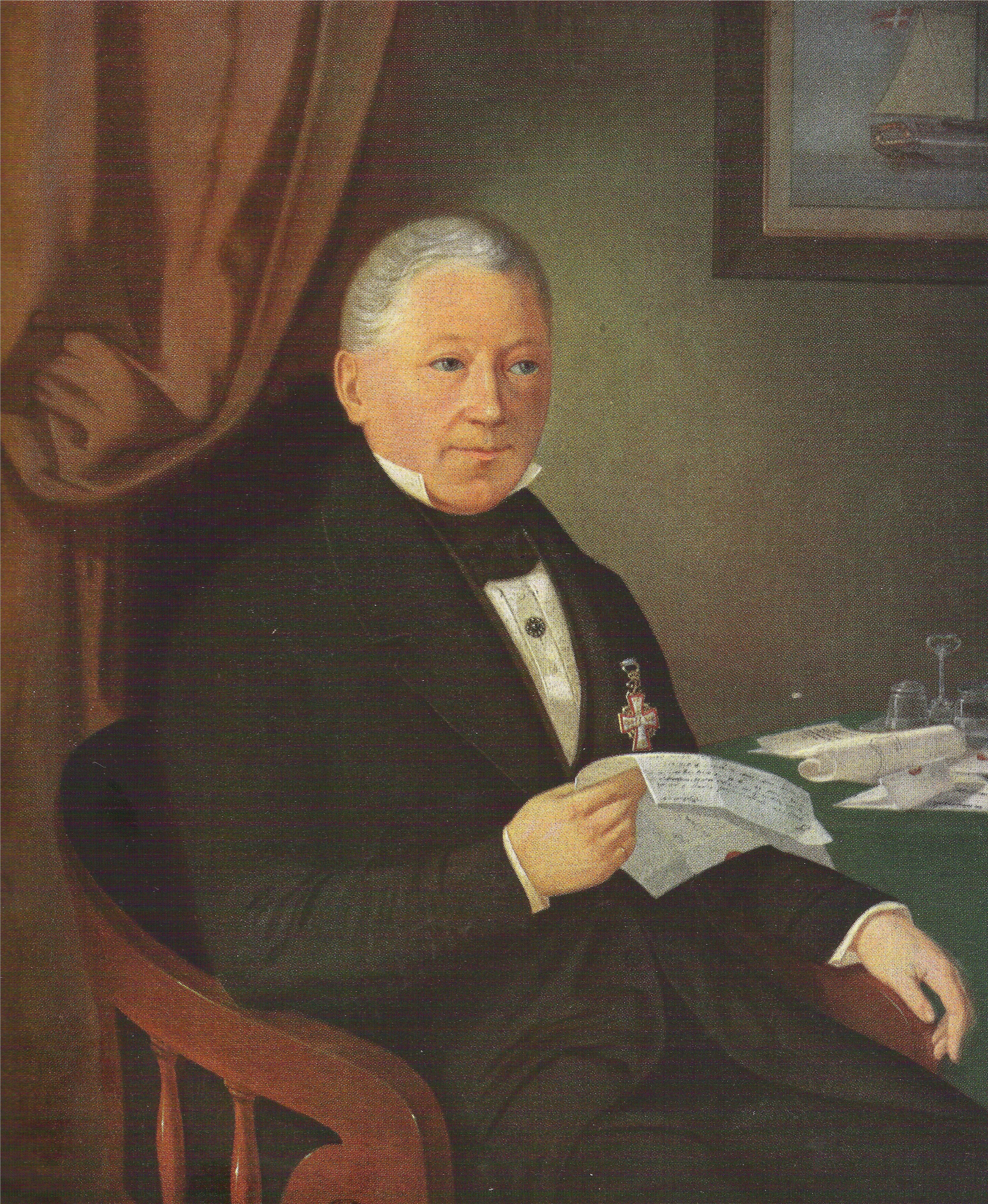 Portrait af Jacob Holm (1770-1845)